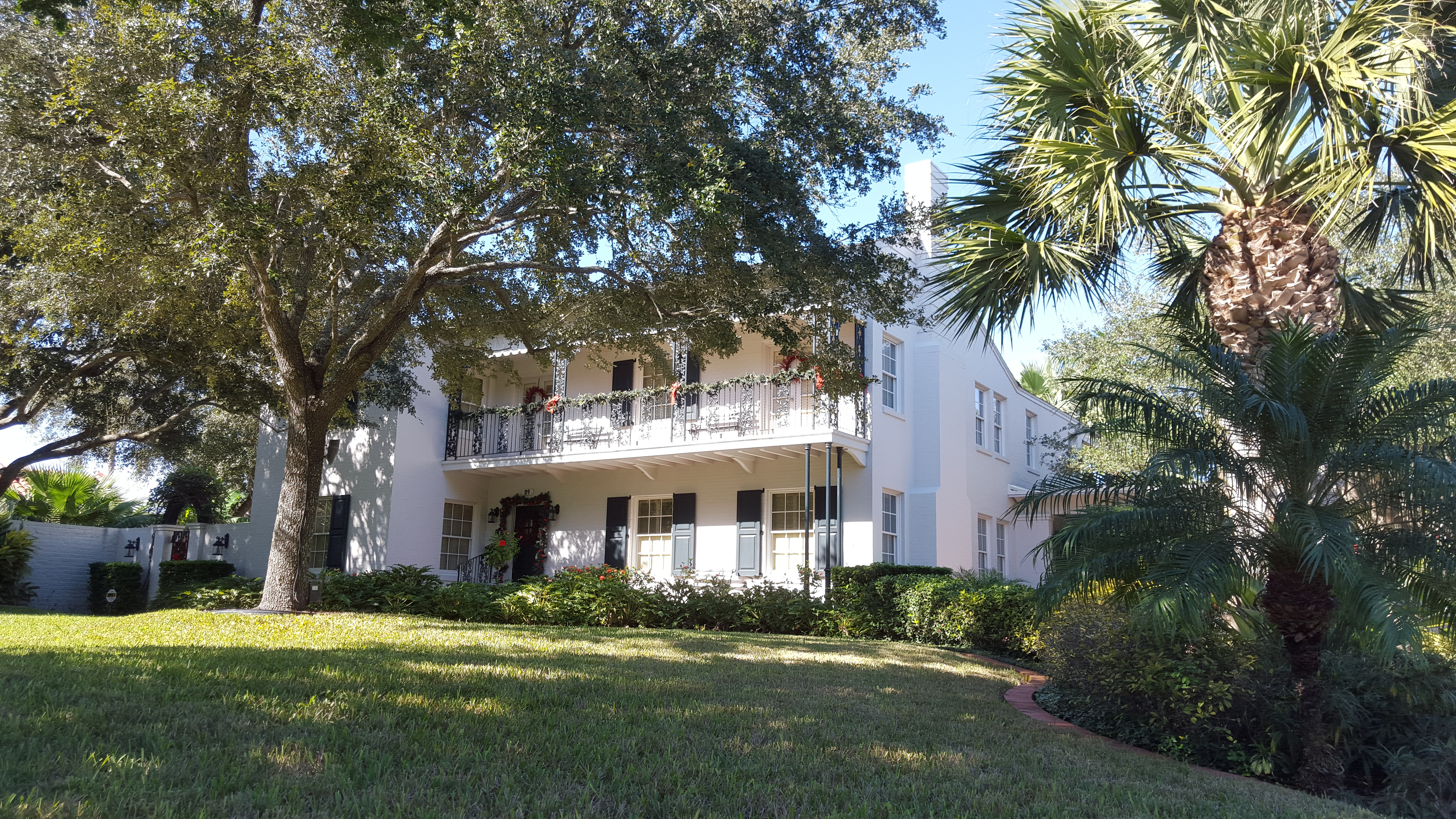 McNair House in Brownsville, TX. Listed on the National Register of Historic Places.